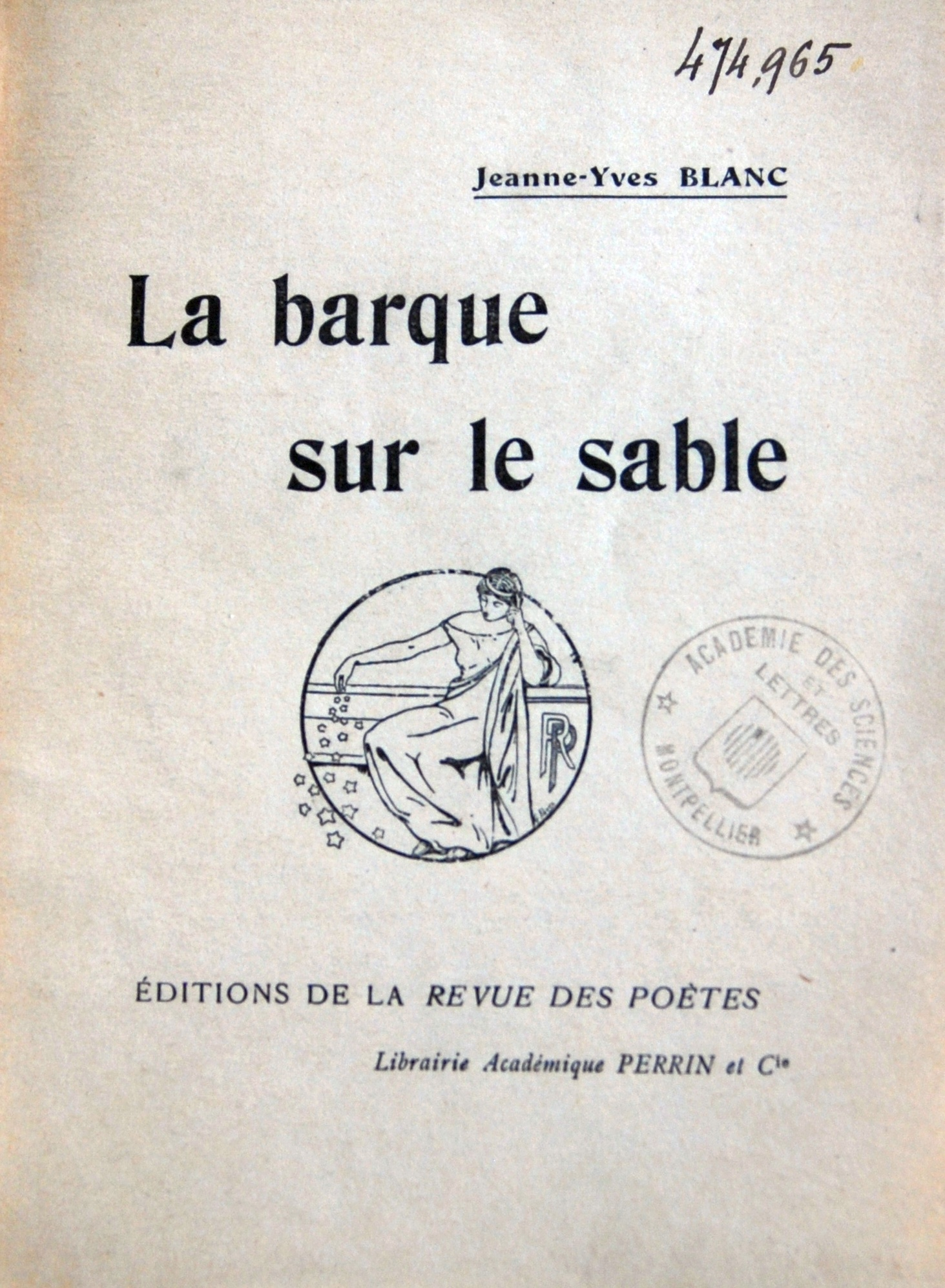 Book cover of "La barque sur le sable" by Jeanne-Yves Blanc